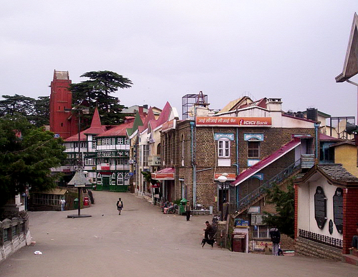 View of the GPO from the Ridge, Shimla